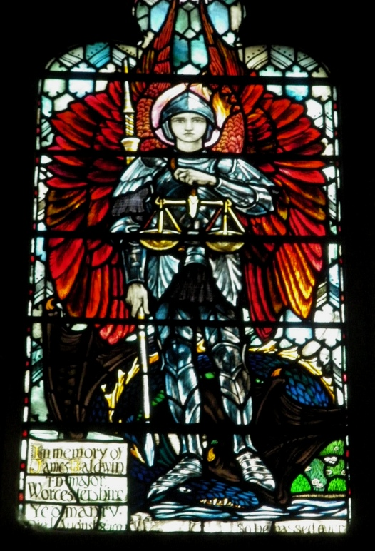 Part of window in Worcester Cathedral by Christopher and Veronica Whall.